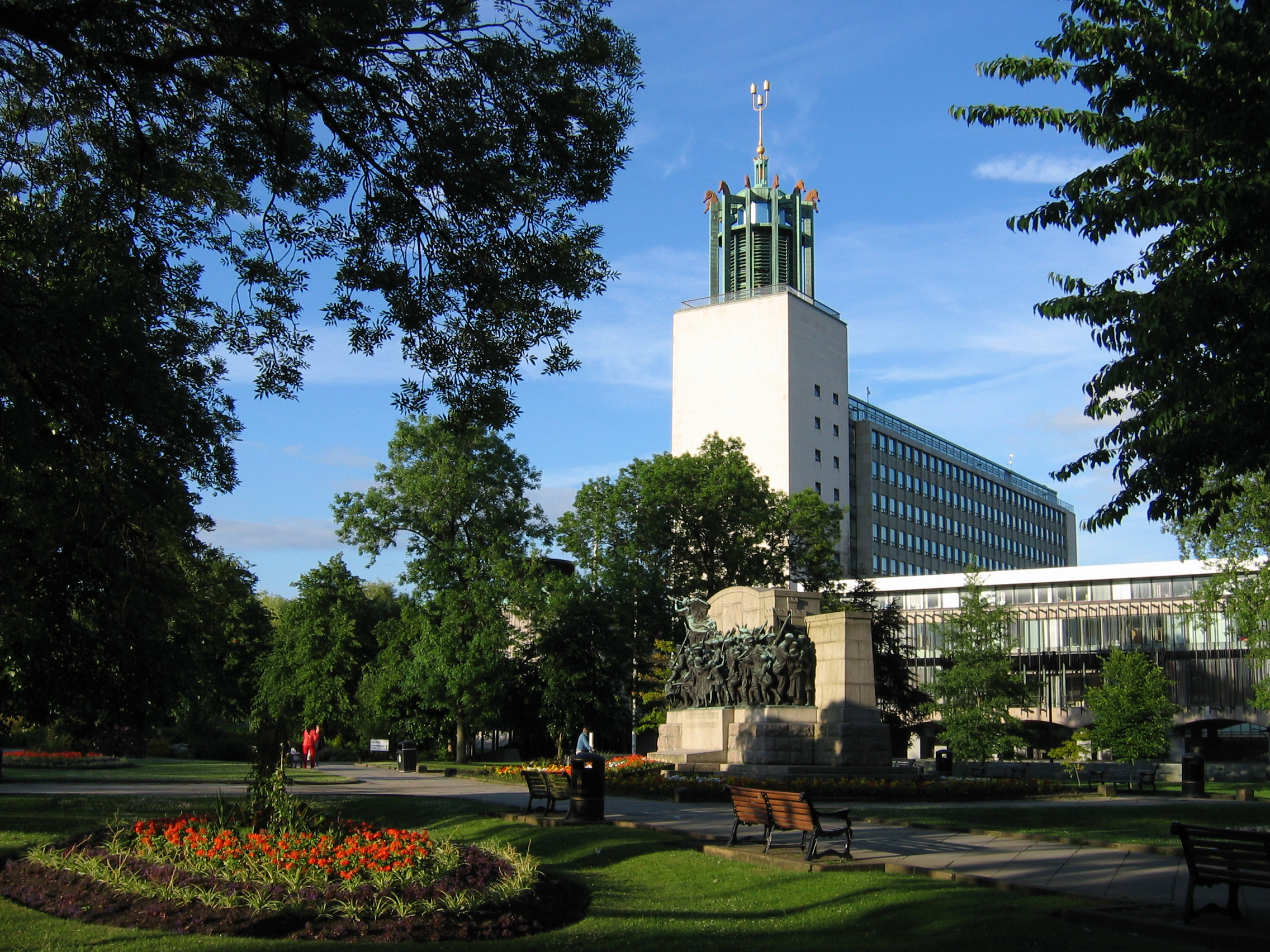 Newcastle Civic Centre, Newcastle upon Tyne, North East England.